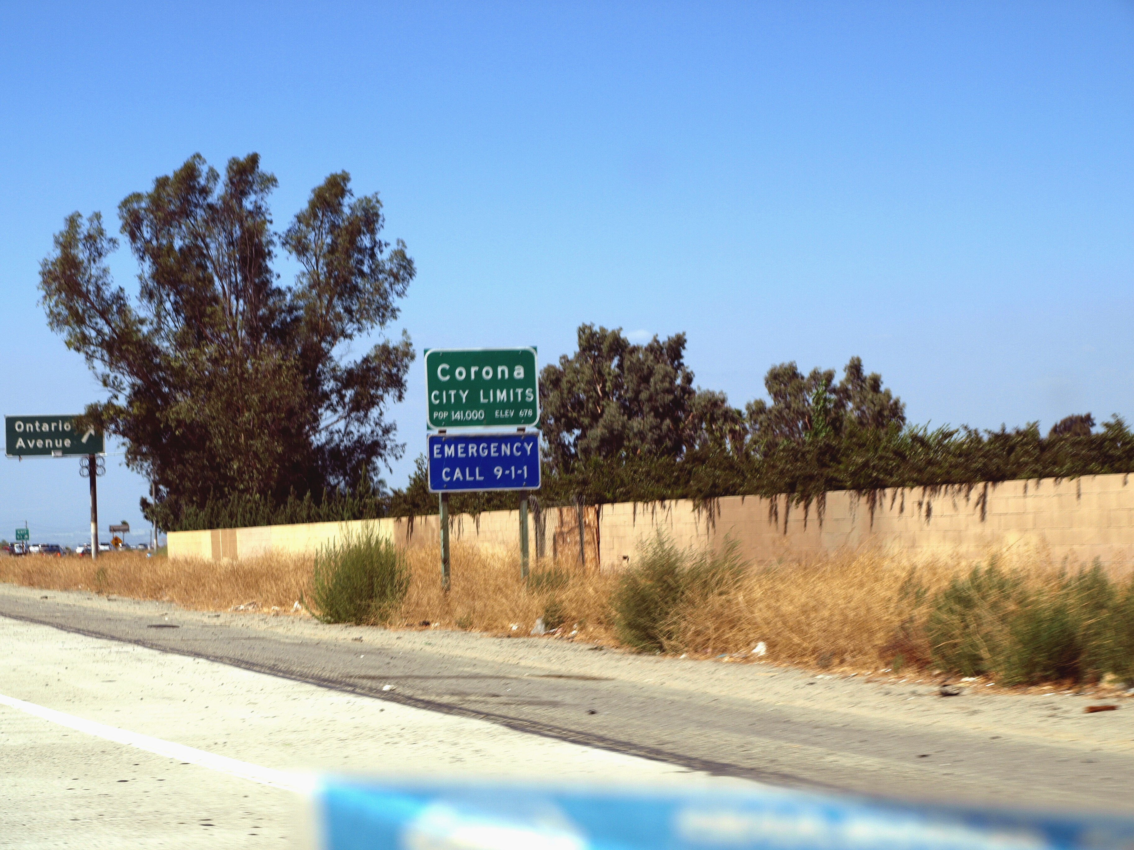 Northbound Interstate 15 approaching the Ontario Avenue off-ramp exit in Corona, California. View from the northbound lane of Interstate 15 looking north. This photograph was taken with an Olympus E-510 DSLR camera and edited (color balance, brightness, contrast, sharpness) using ArcSoft PhotoStudio 5.5